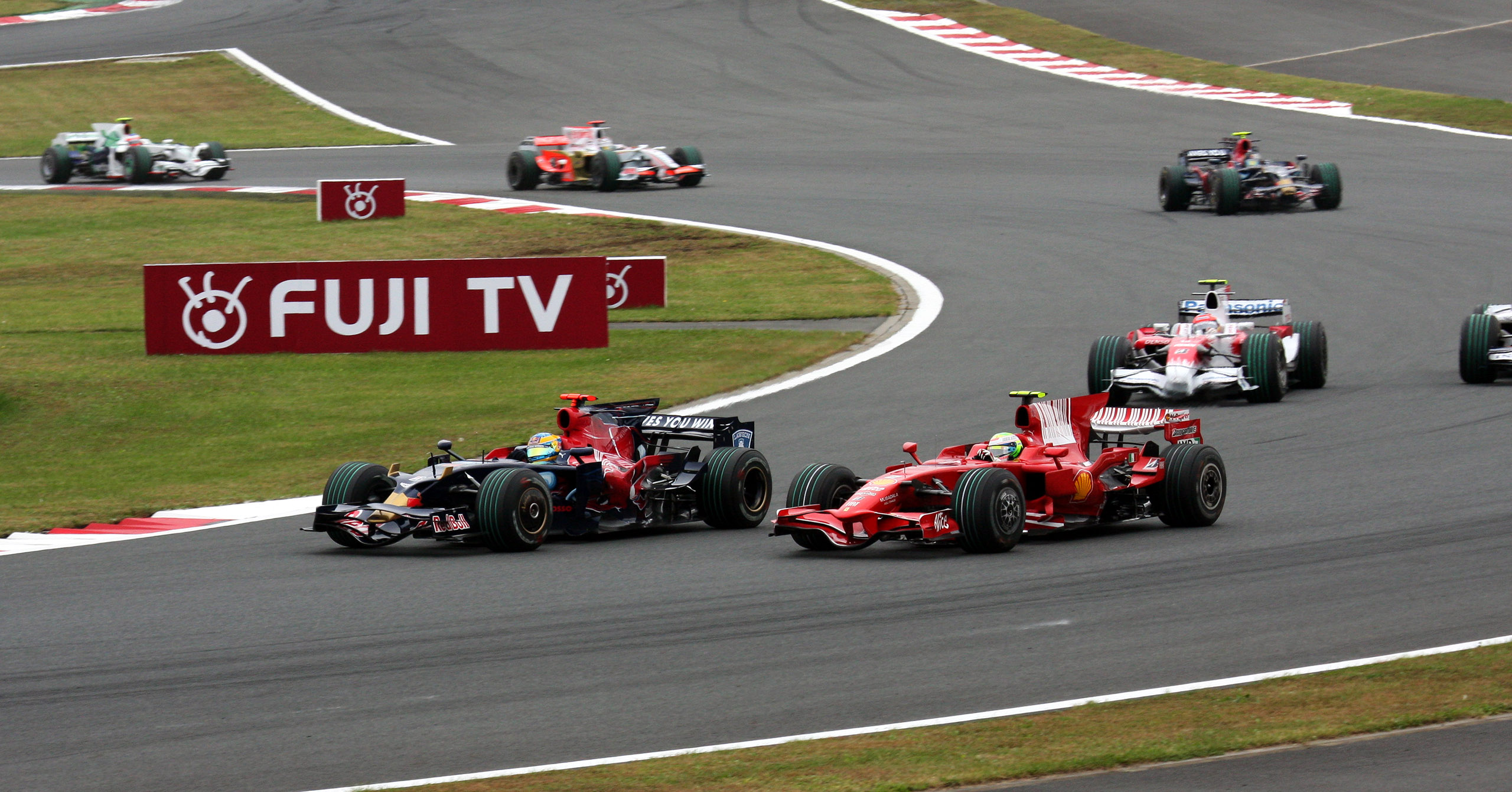 Formula One 2008 Rd.16 Japanese GP: Offense and defense between Sébastien Bourdais (left, Toro Rosso) and Felipe Massa (right, Ferrari) at the 2008 Japanese Grand Prix.